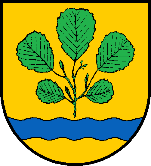 Coat of arms of Ellerbek Blasonierung: In Gold ein aufrecht stehender grüner Erlenzweig mit fünf Blättern über blauem Wellenbalken im Schildfuß.